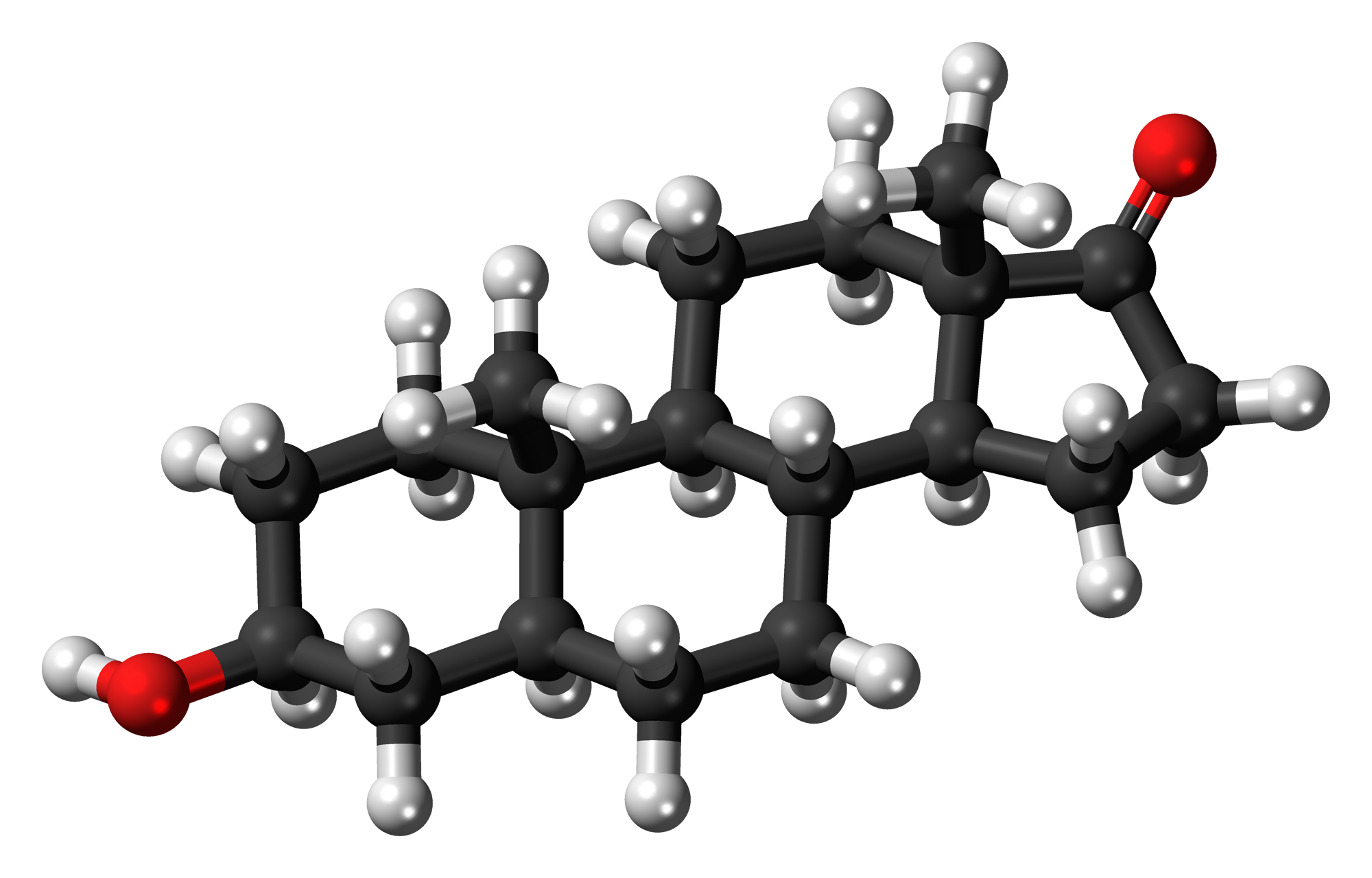 Ball-and-stick model of the epiandrosterone molecule, a steroid hormone. Colour code: Carbon, C: black Hydrogen, H: white Oxygen, O: red